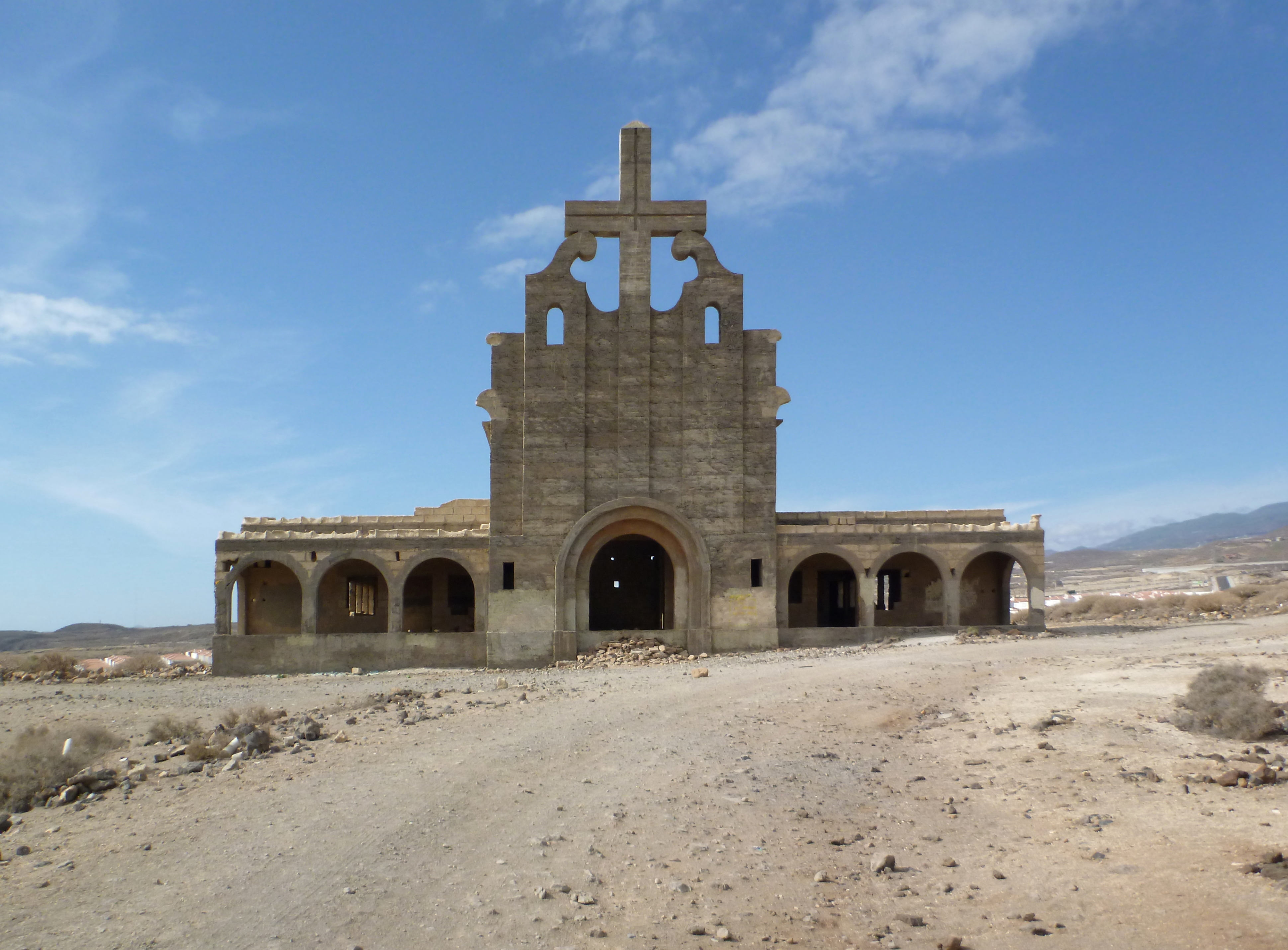 Church of the former "Sanatorio de Abona“ the leprosy station of Abades